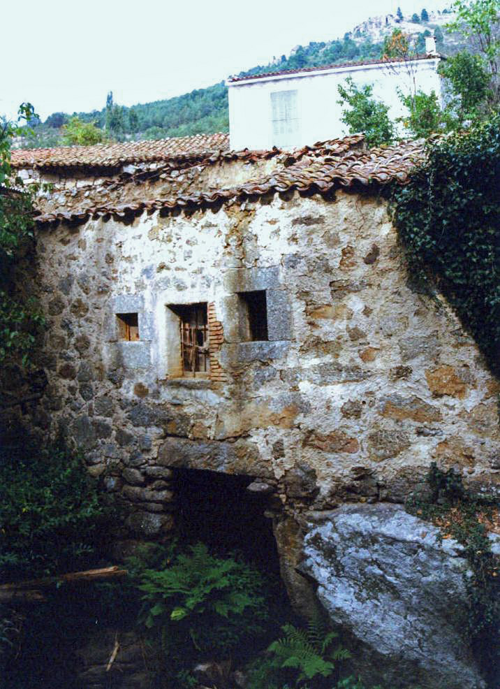 Watermill of la Rata (ca. 1995). Villafranca de la Sierra. (Ávila, Spain)